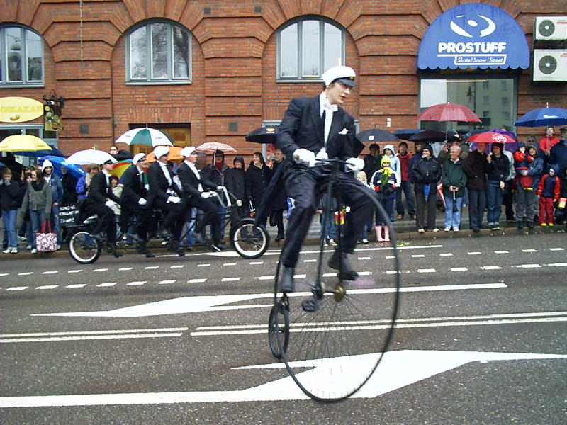 Students of Chalmers University of Technology in Gothenburg, Sweden, riding a penny-farthing and a quadruplet bicycle during the Chalmers Cortège of 2006. Photo taken by Atilim Gunes Baydin on April 30, en:2006.